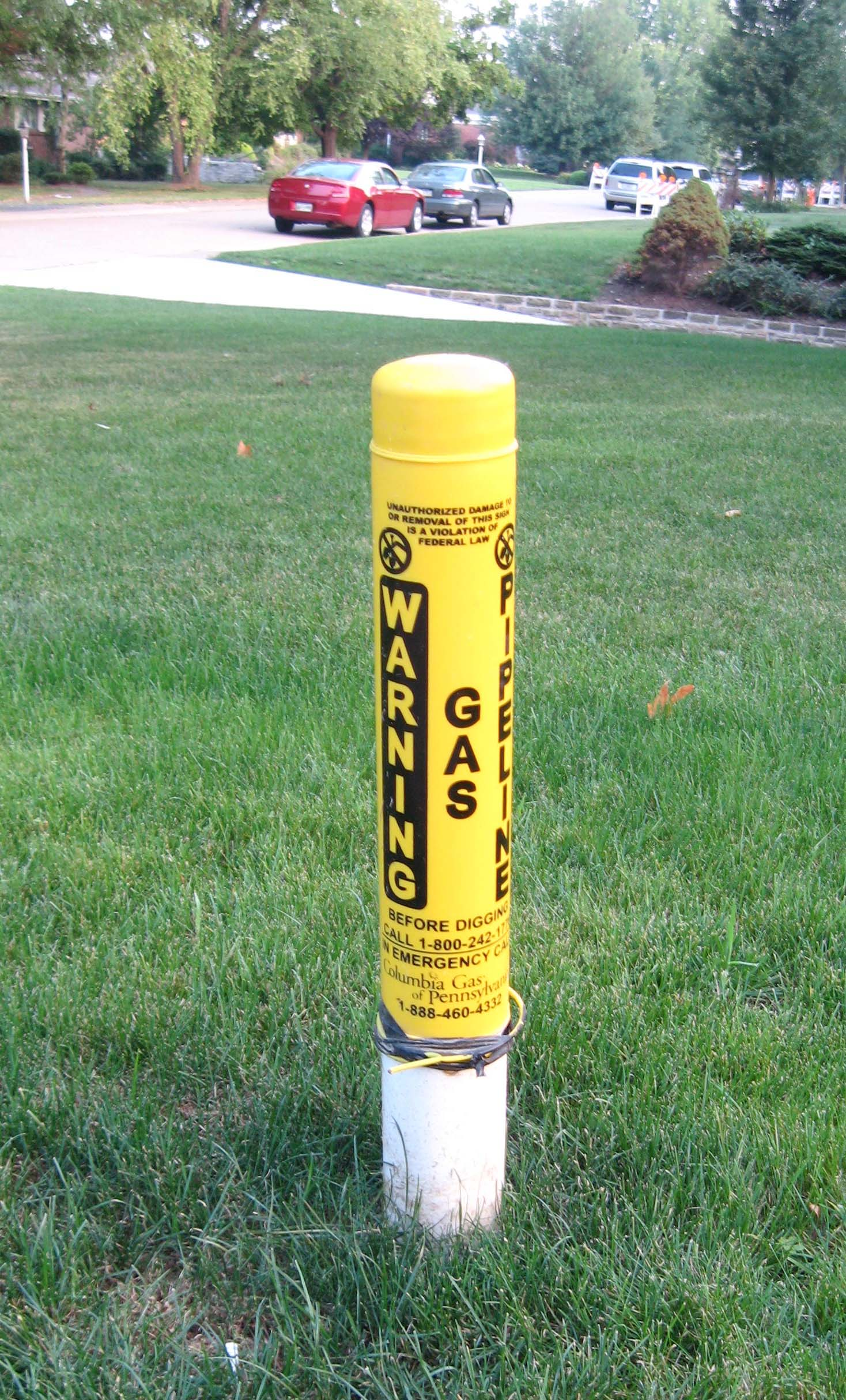 Warning against digging up the Columbia Natural Gas pipe in Mt. Lebanon, Pennsylvania